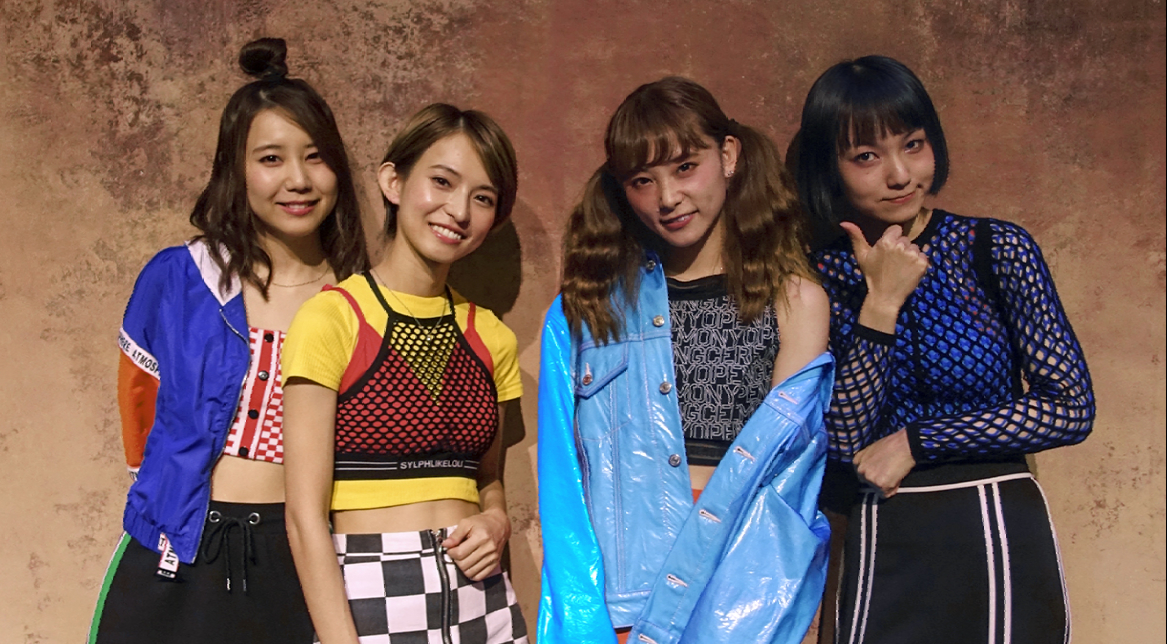 Japanese pop-rock band SCANDAL at House of Blues Anaheim in Anaheim, CA, USA for 『SCANDAL from Japan US & Mexico Tour 2018 「Special Thanks」』